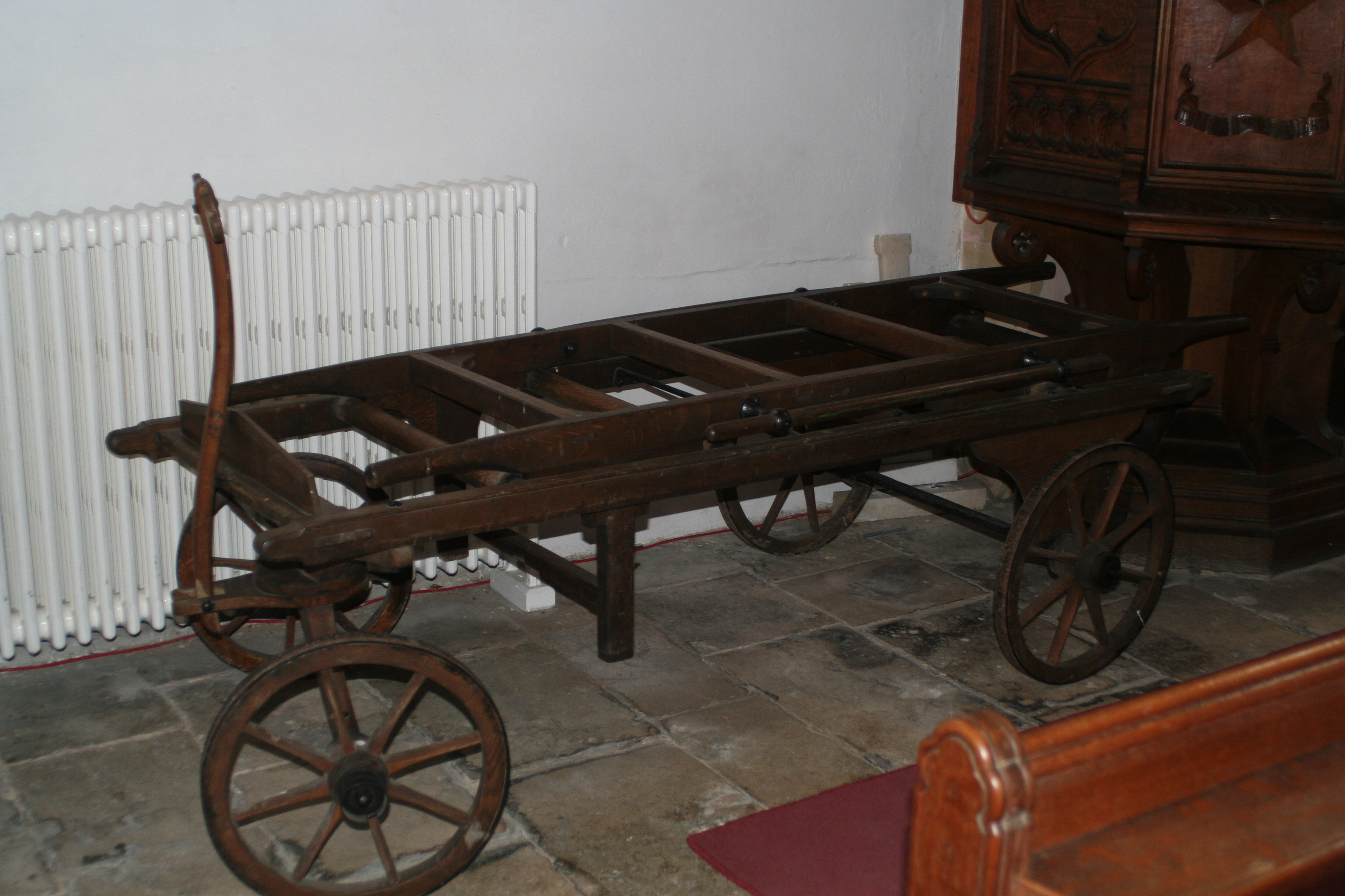 A bier in Grendon church; picture by R Neil Marshman (c) - see metadata